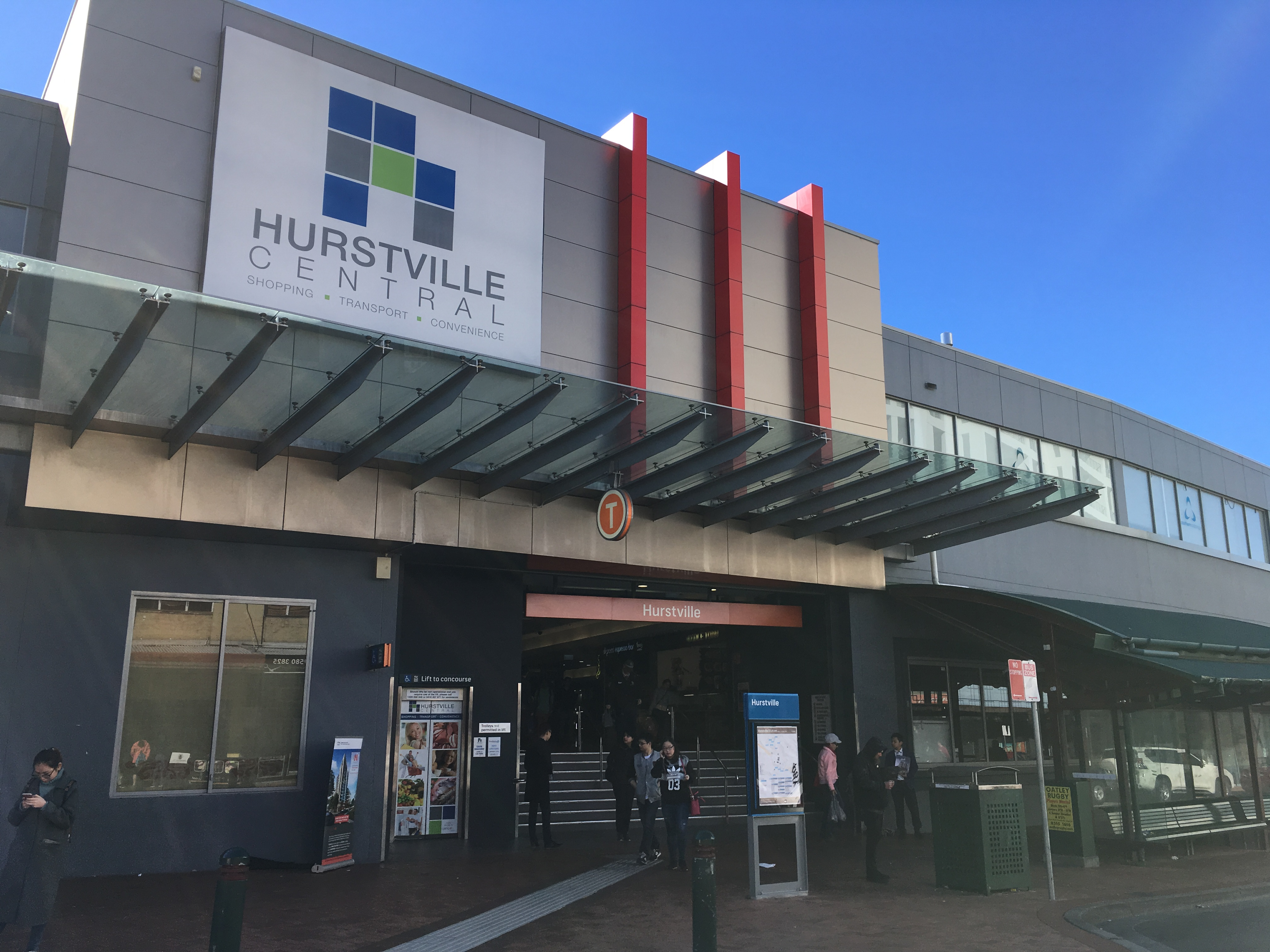 View of the entrance to the Hurstville Central shopping centre from Ormonde Parade, located in Hurstville, New South Wales. Depicted in the image is a major segment of the greater Hurstville Transport Interchange, indicated by the familiar Transport for New South Wales "hop"-style signage. The recognisable white-on-orange signage and "T" signpost indicating the presence of the Hurstville railway station inside, and the Sydney Trains services operating to and from the station. The blue signage indicates the bus stops, visible at the right of the entrance in these images, serviced by operators on the extensive bus network in Sydney.